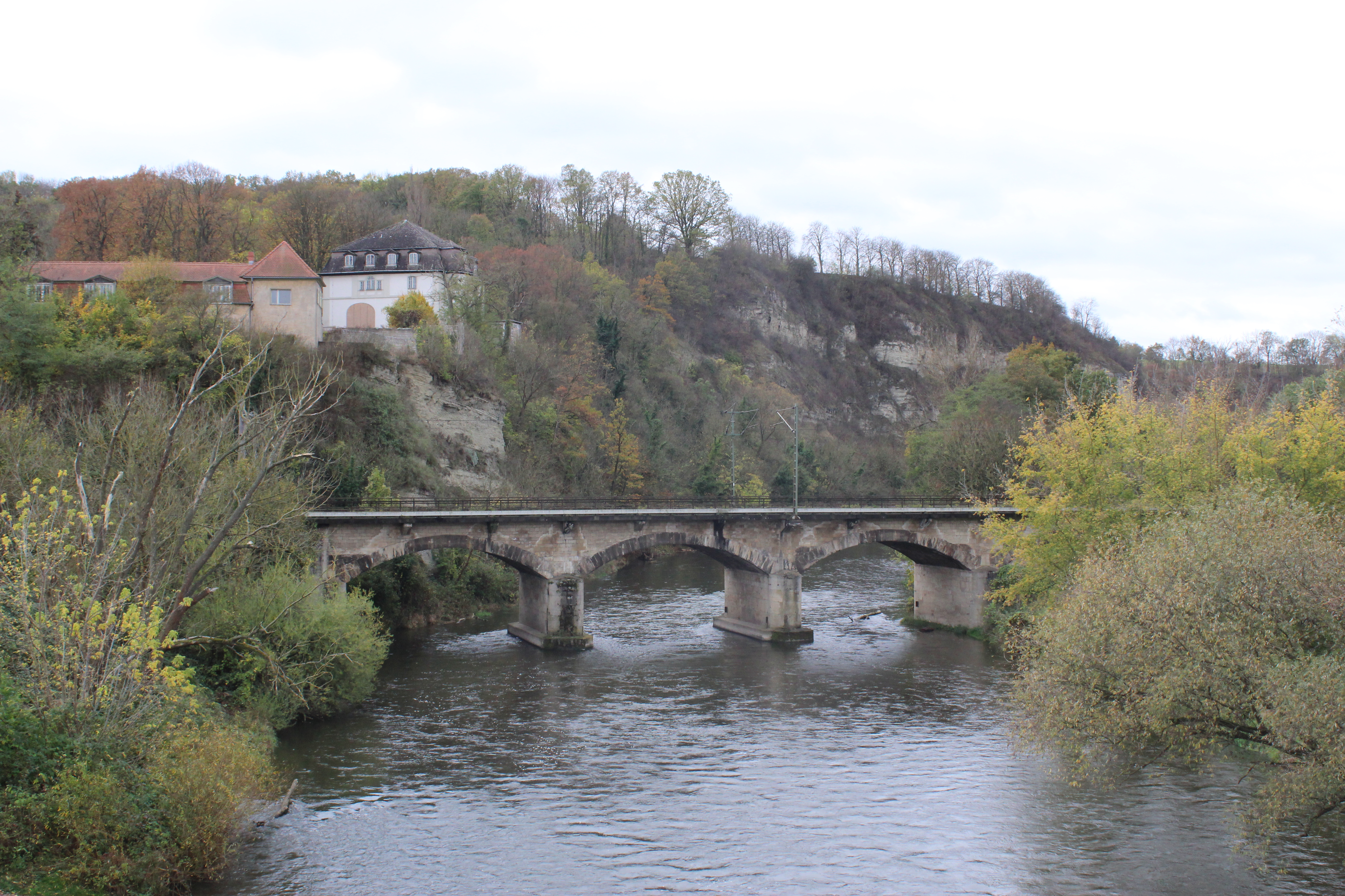 Saale bridge Bad Kösen km 55,7